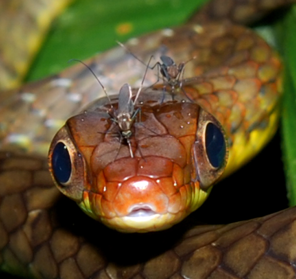 A Smooth Machete Savane, also known as the Wagler's Sipo (Chironius scurrulus), in Yasuni National Park, Ecuador. Several feeding mosquitoes are also visible, having pierced the vulnerable skin between the snake's scales.